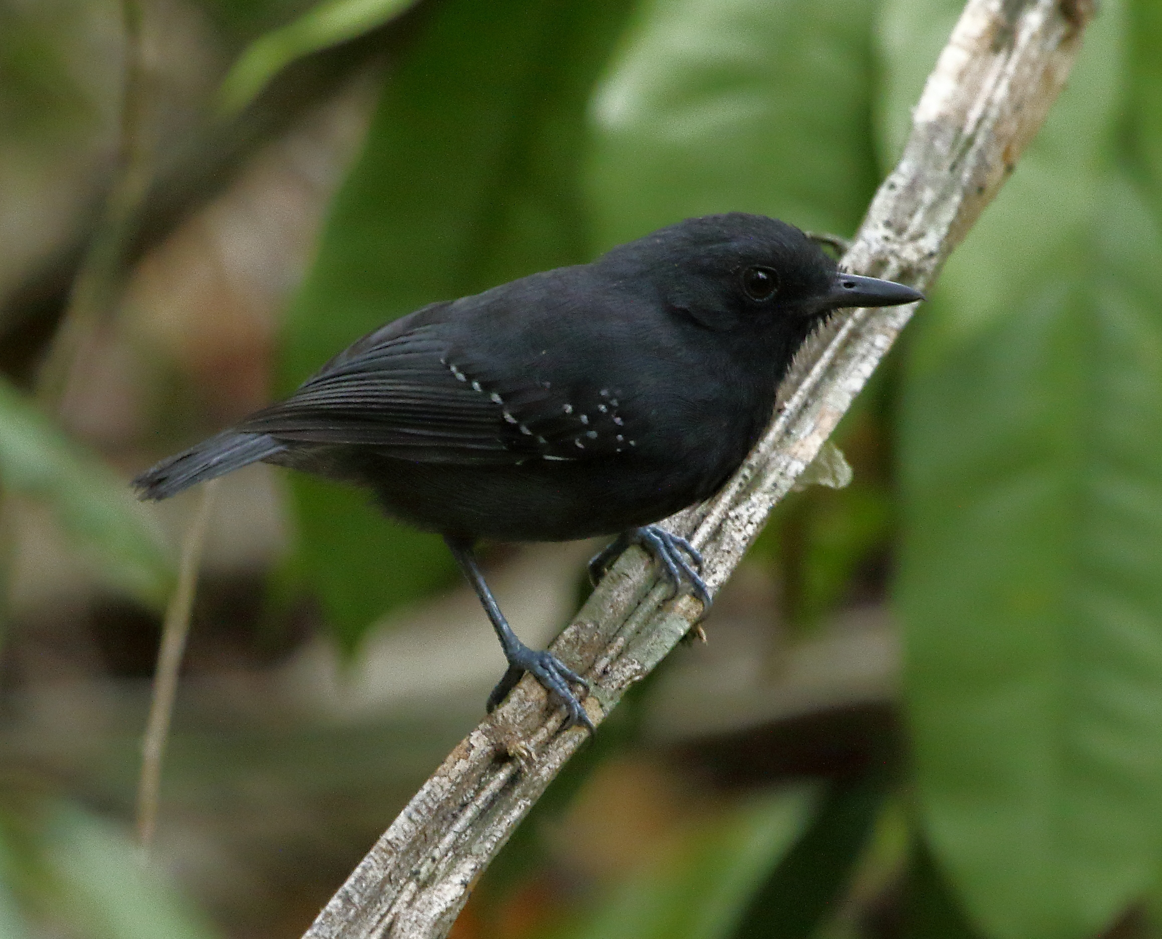 Male plumbeous antvireo at Sooretama Biological Reserve - ES - Brasil